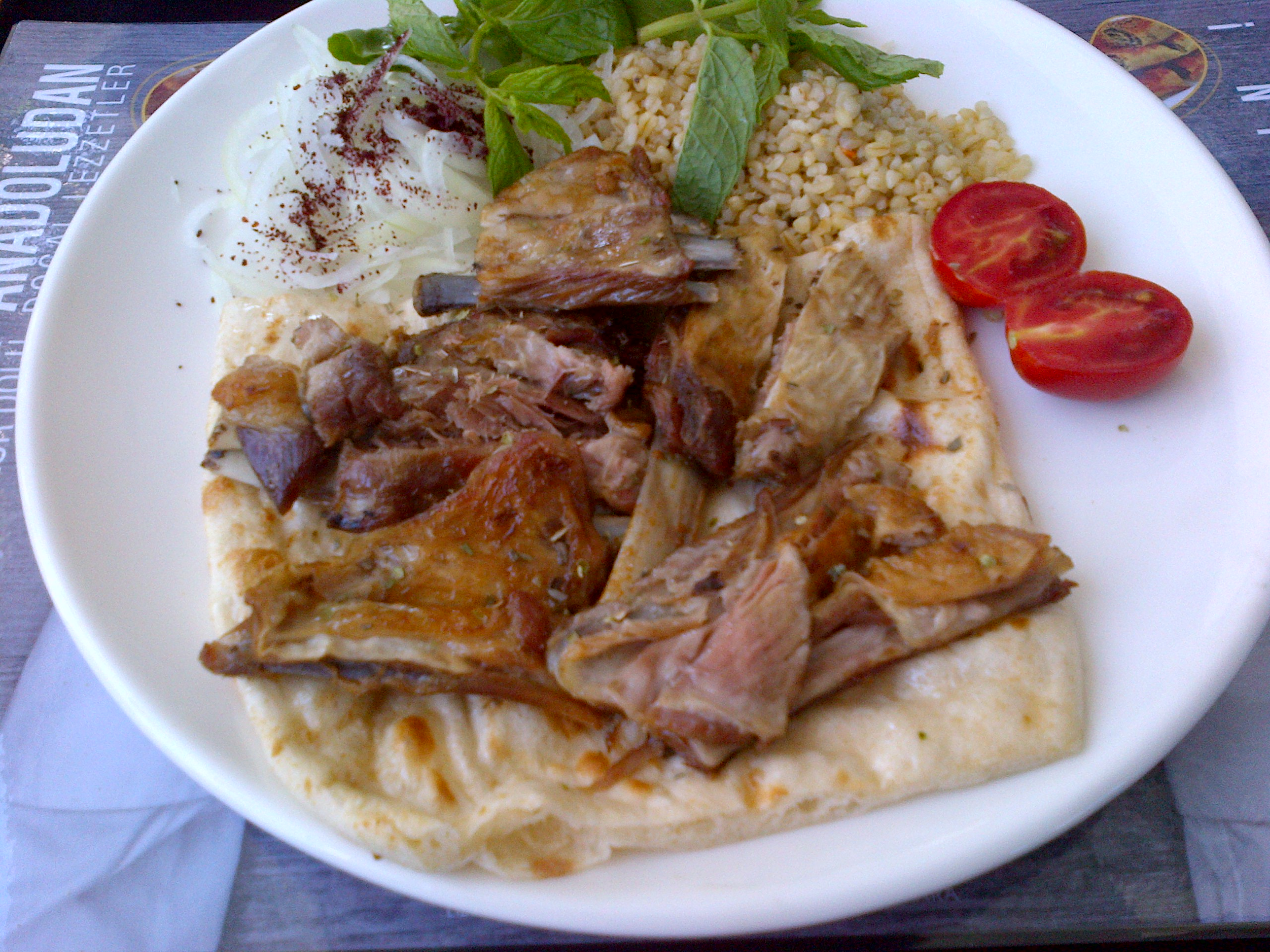 "Kuyu kebabı" (a kind of "tandır"-cooked lamb) in Ankara